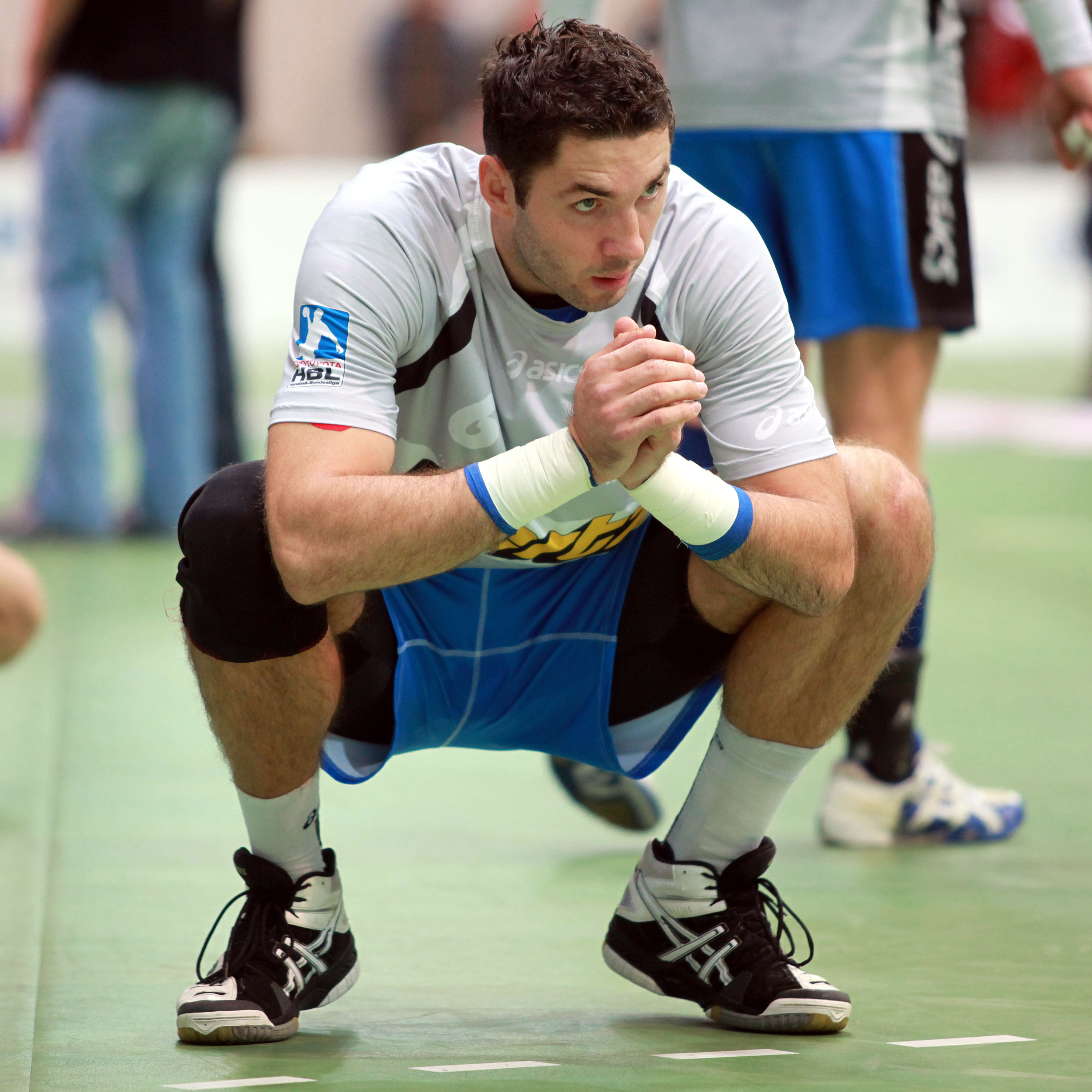 Blaženko Lacković, Croatian handball player from HSV Hamburg, on September 6th, 2009 in the f.a.n. frankenstolz arena of Aschaffenburg, prior the bundesliga match TV Großwallstadt vers. HSV Hamburg (24:27).